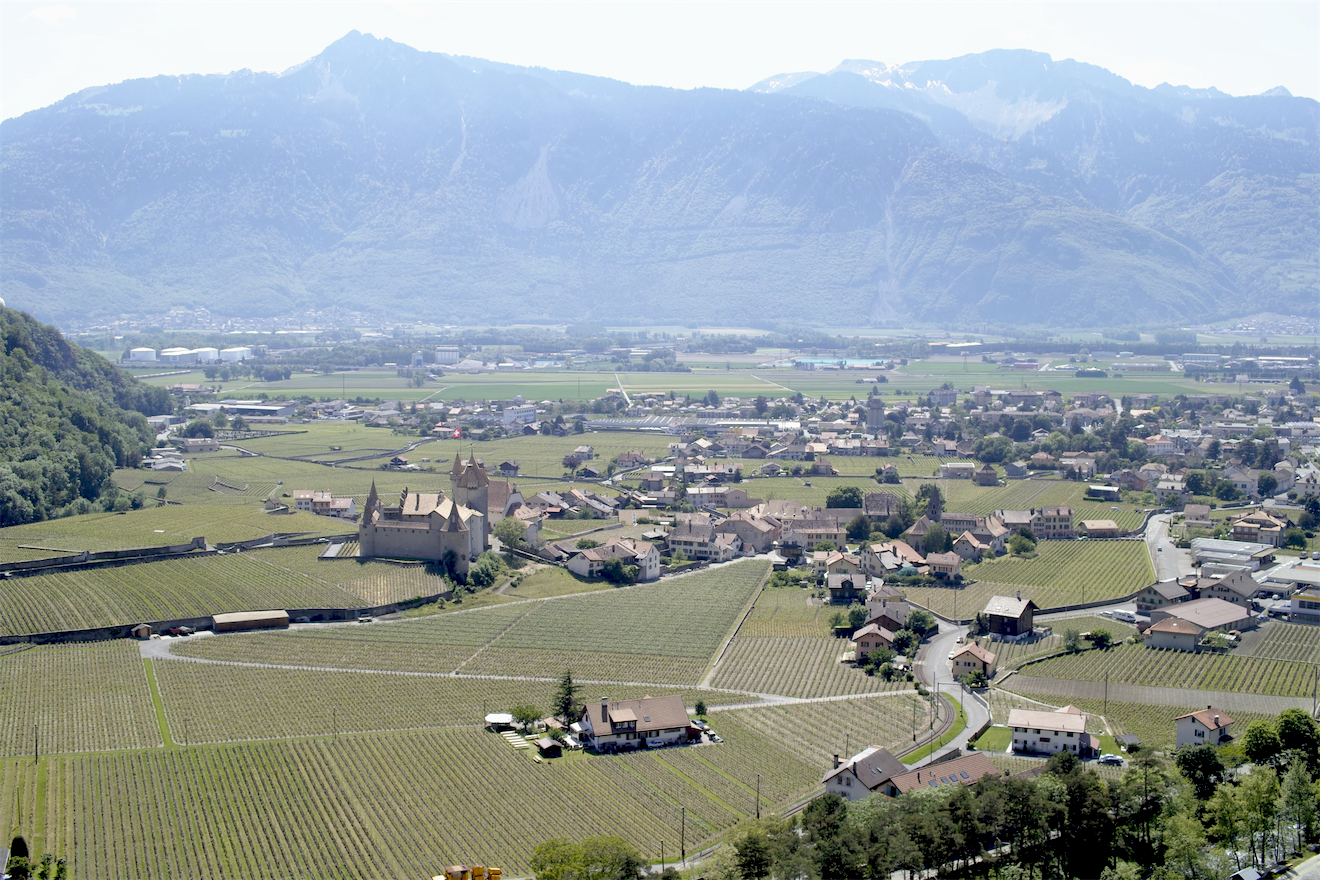 City of Aigle (Vaud), castle and wineyards, Cloître area, viewed from Fontaney